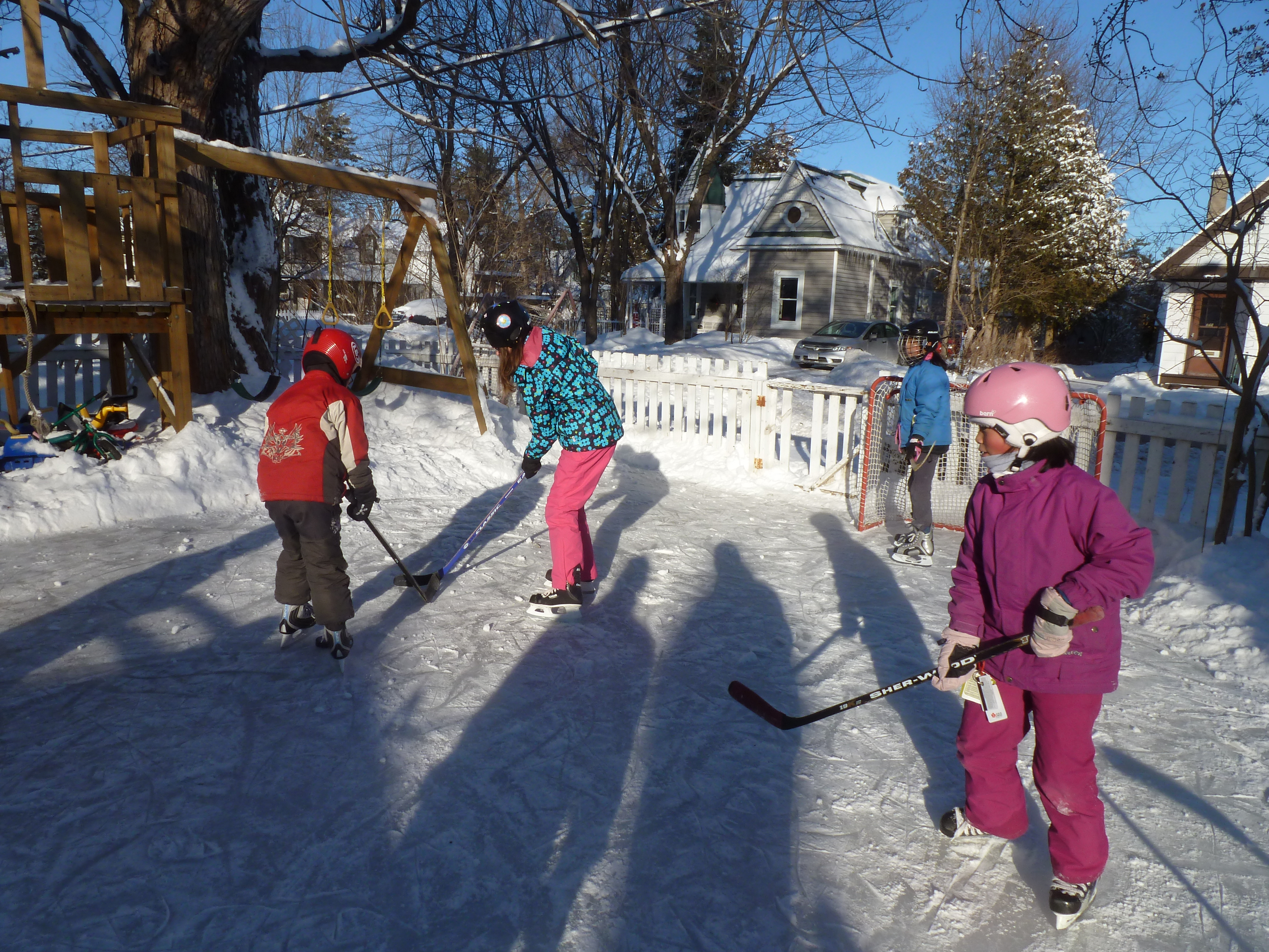 A backyard skating rink being used for a children's game of ice hockey. Ottawa, Ontario, Canada.